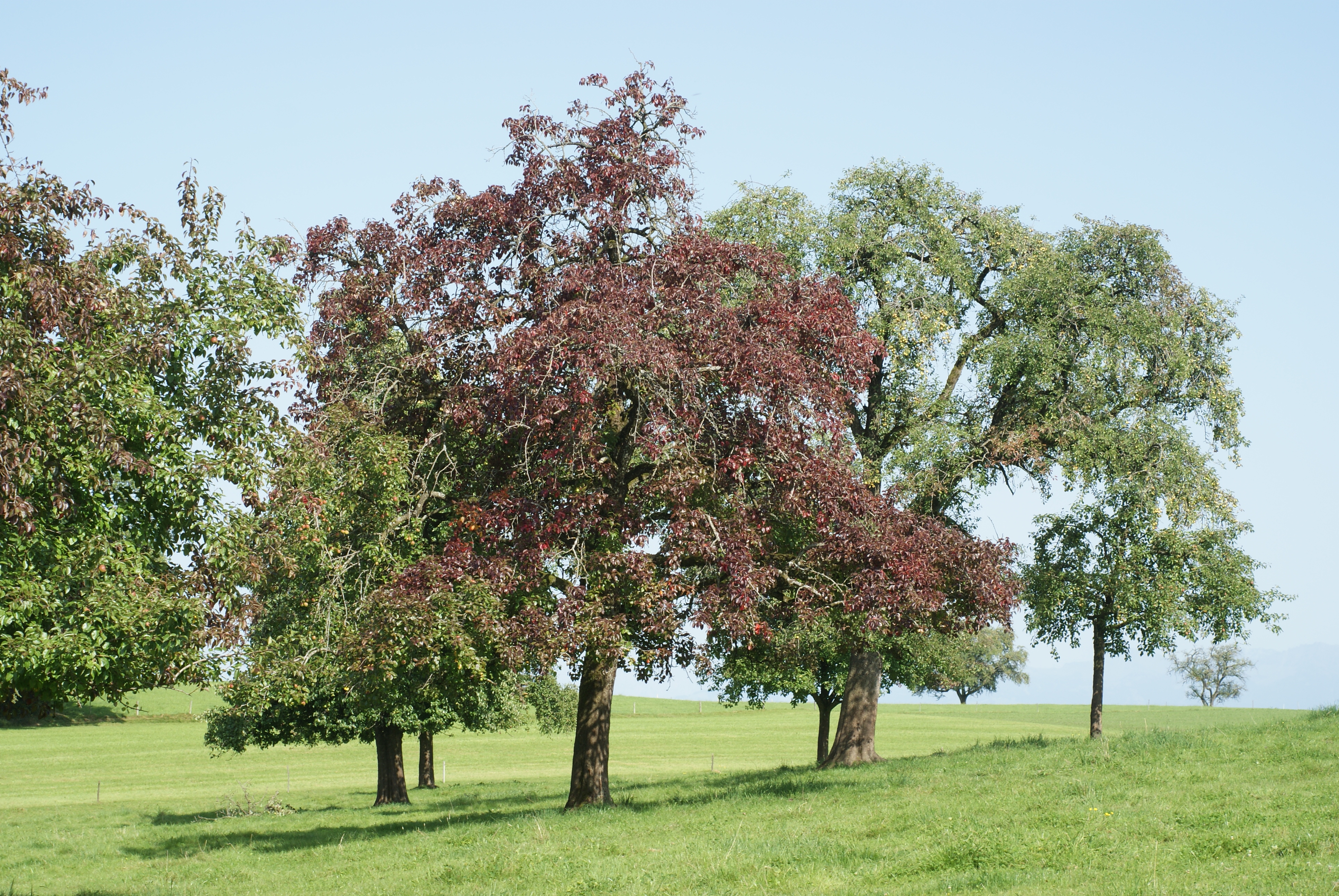 Pear tree affected by pear decline. The variety is "Schweizer Wasserbirne".